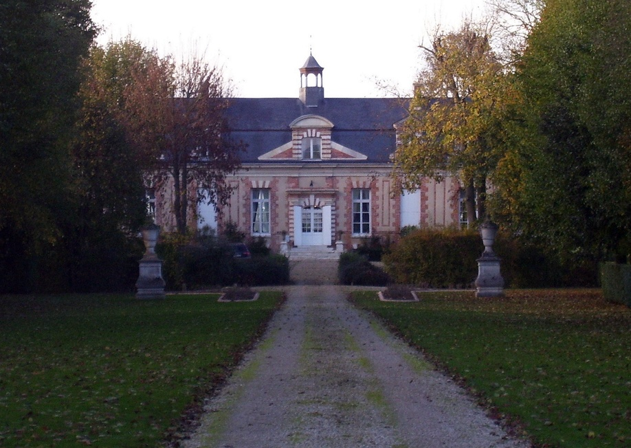 Caudecotte castle in Bazoques (France).